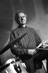 Pierre Favre